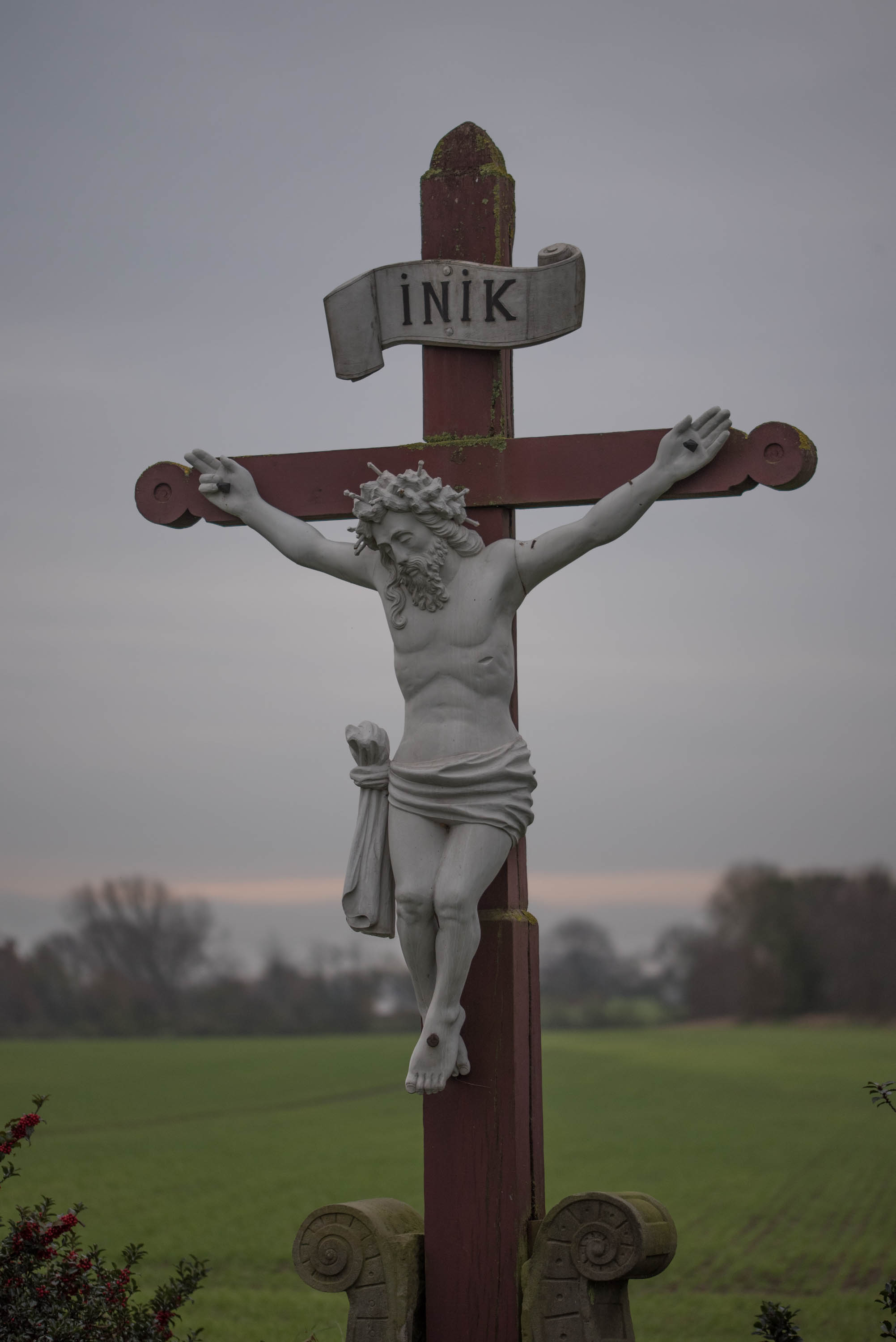 Crucifix at Skovsbo, Rynkeby, Denmark closeup